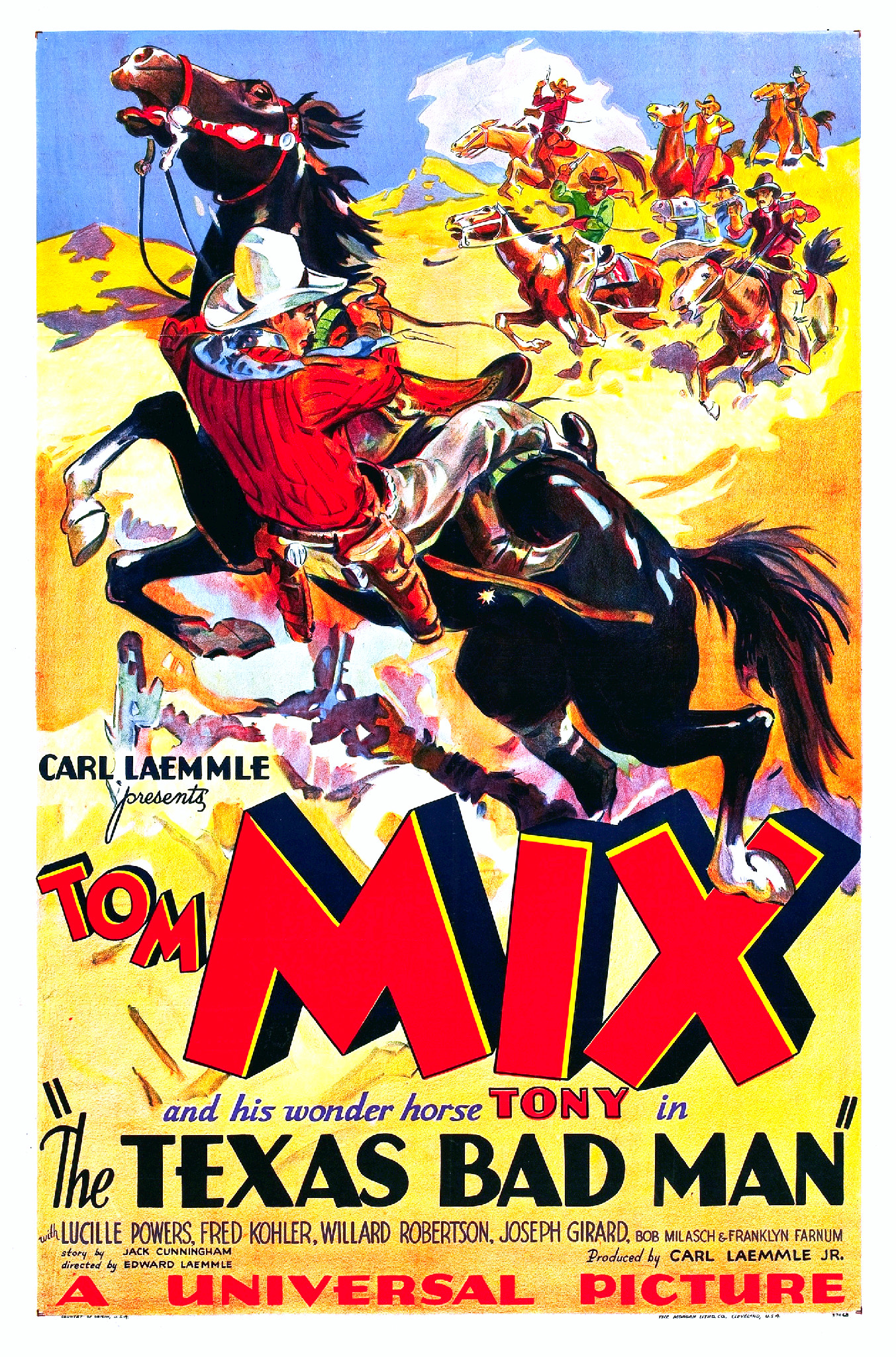 Poster for the 1932 film The Texas Bad Man. There are no copyright marks on the poster. At bottom left is Country of Origin USA. At bottom right is The Morgan Litho Co., Cleveland USA-they printed the poster-and 37068.